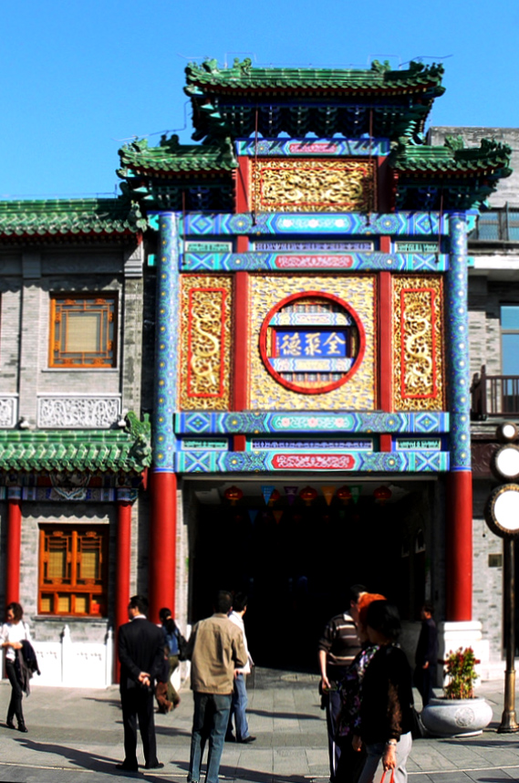 Quanjude Peking Duck Restaurant, Qian Men, Beijing